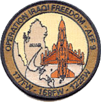 122d Fighter Wing 158th Fighter Wing and 177th Fighter Wing Operation IRAQI FREEDOM patch